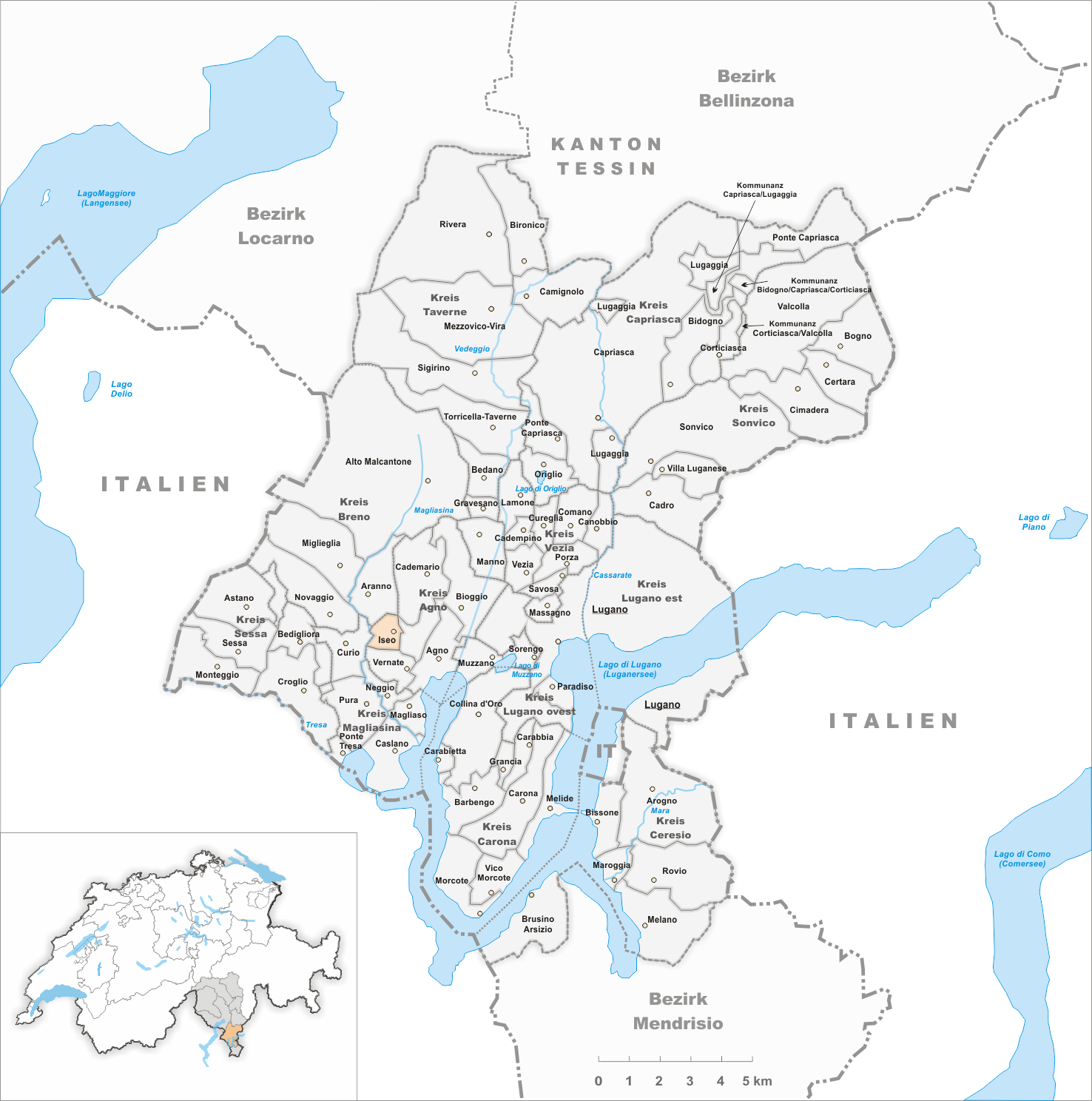 Municipality Iseo